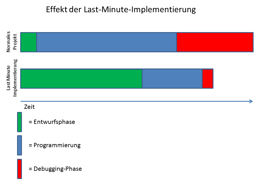 last-minute-implementing effect, de marco, The Deadline, novel